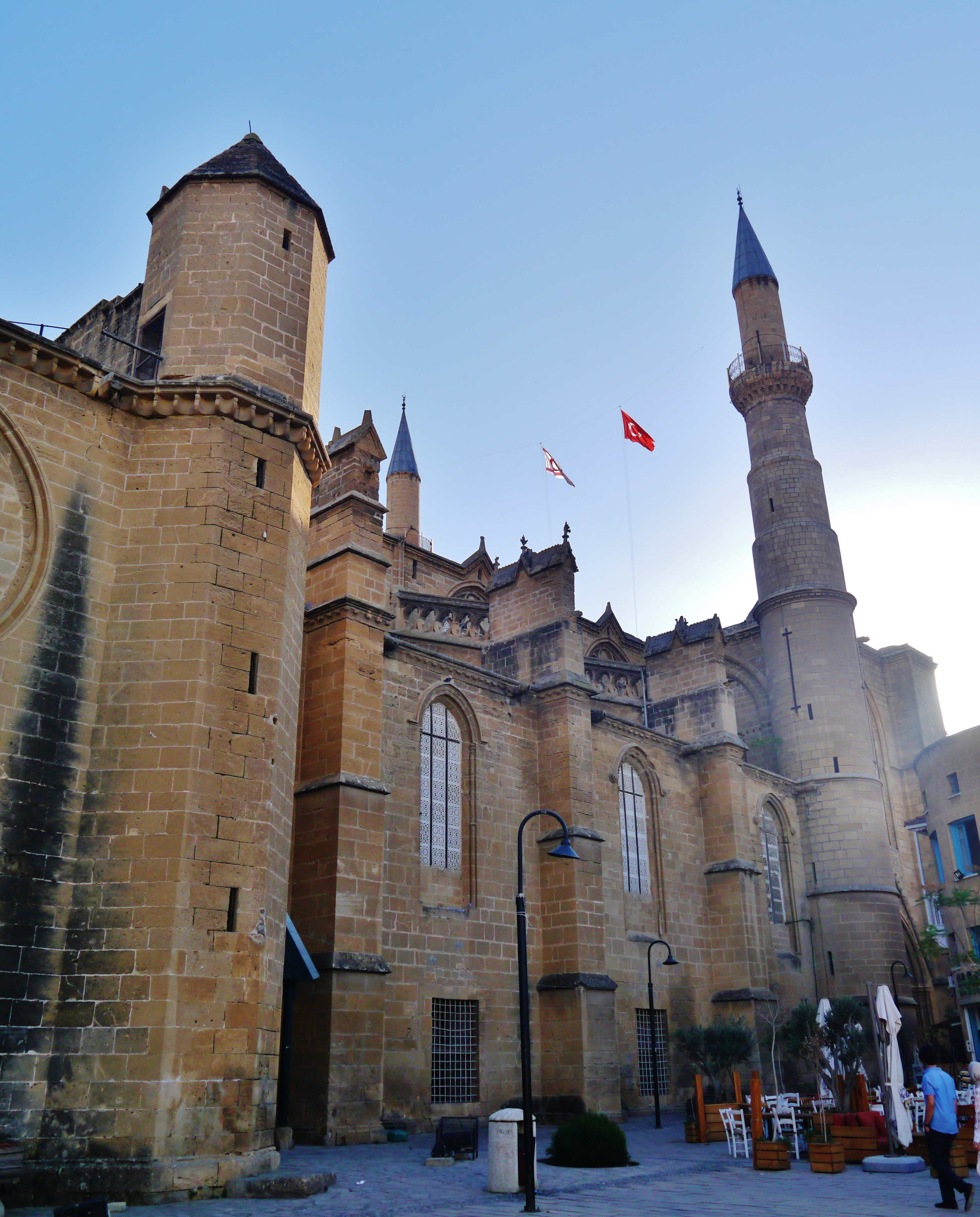 North Side of the Selimiye Mosque (former Cathedral of St. Sophia), Lefkoşa/North Nicosia, Turkish Republic of North Cyprus